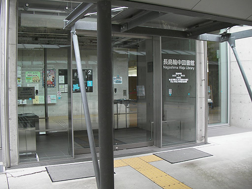 This is Nagashima Waju Library in Kuwana, Mie, Japan.